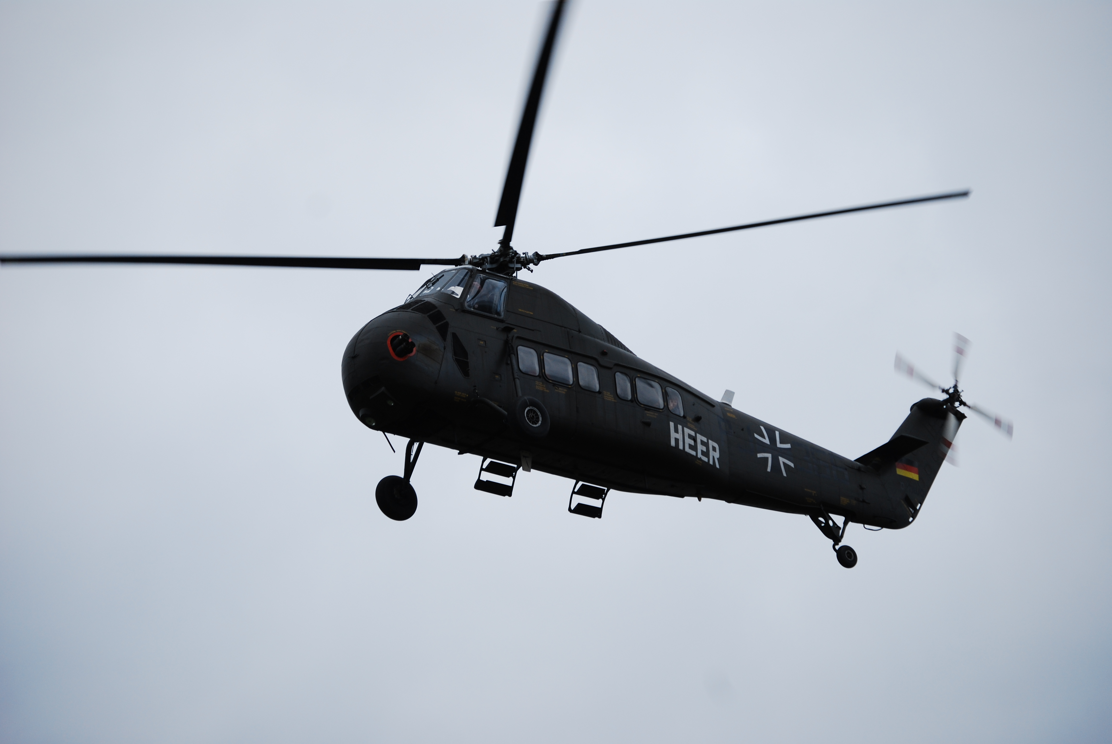 Sikorsky S58